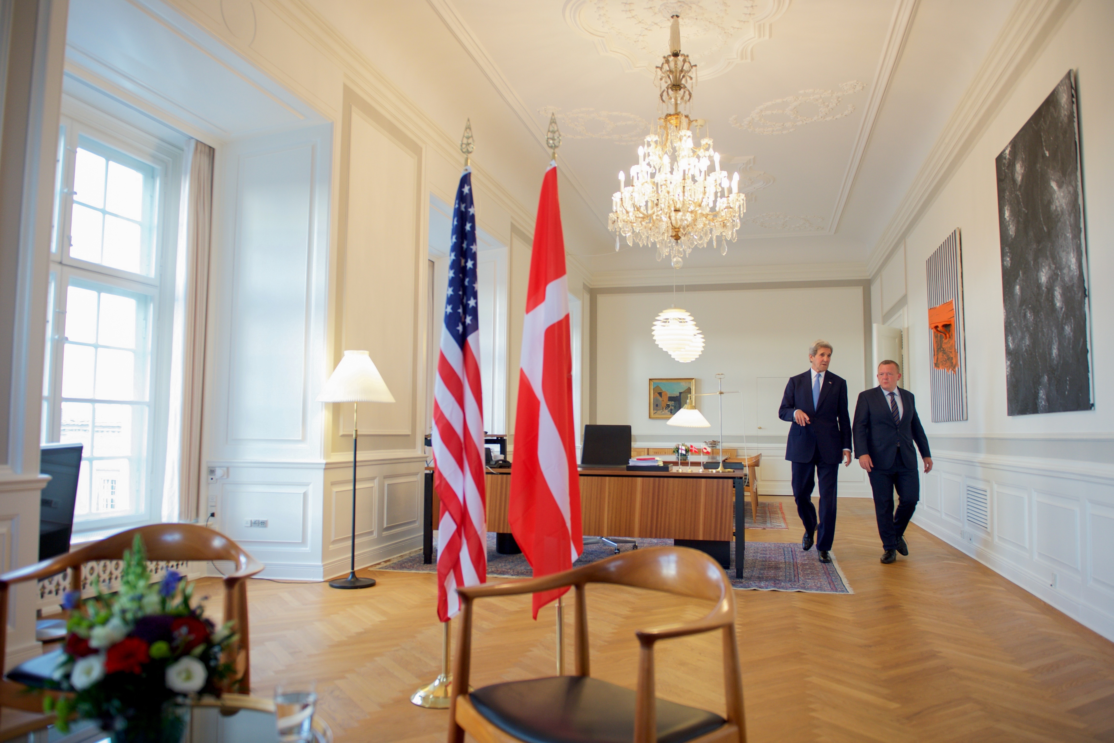 U.S. Secretary of State John Kerry and Danish Prime Minister Lars Rasmussen enter the Prime Minister's Office for their meeting in Copenhagen, Denmark, on June 16, 2016. [State Department photo/ Public Domain] [State Department photo/ Public Domain]